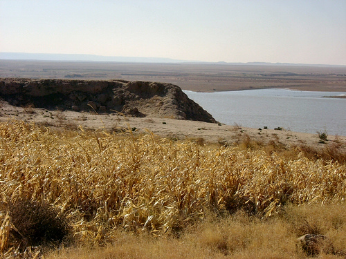 Fields of corn near the Euphrates possibly western Iraq (Al-Anbar)